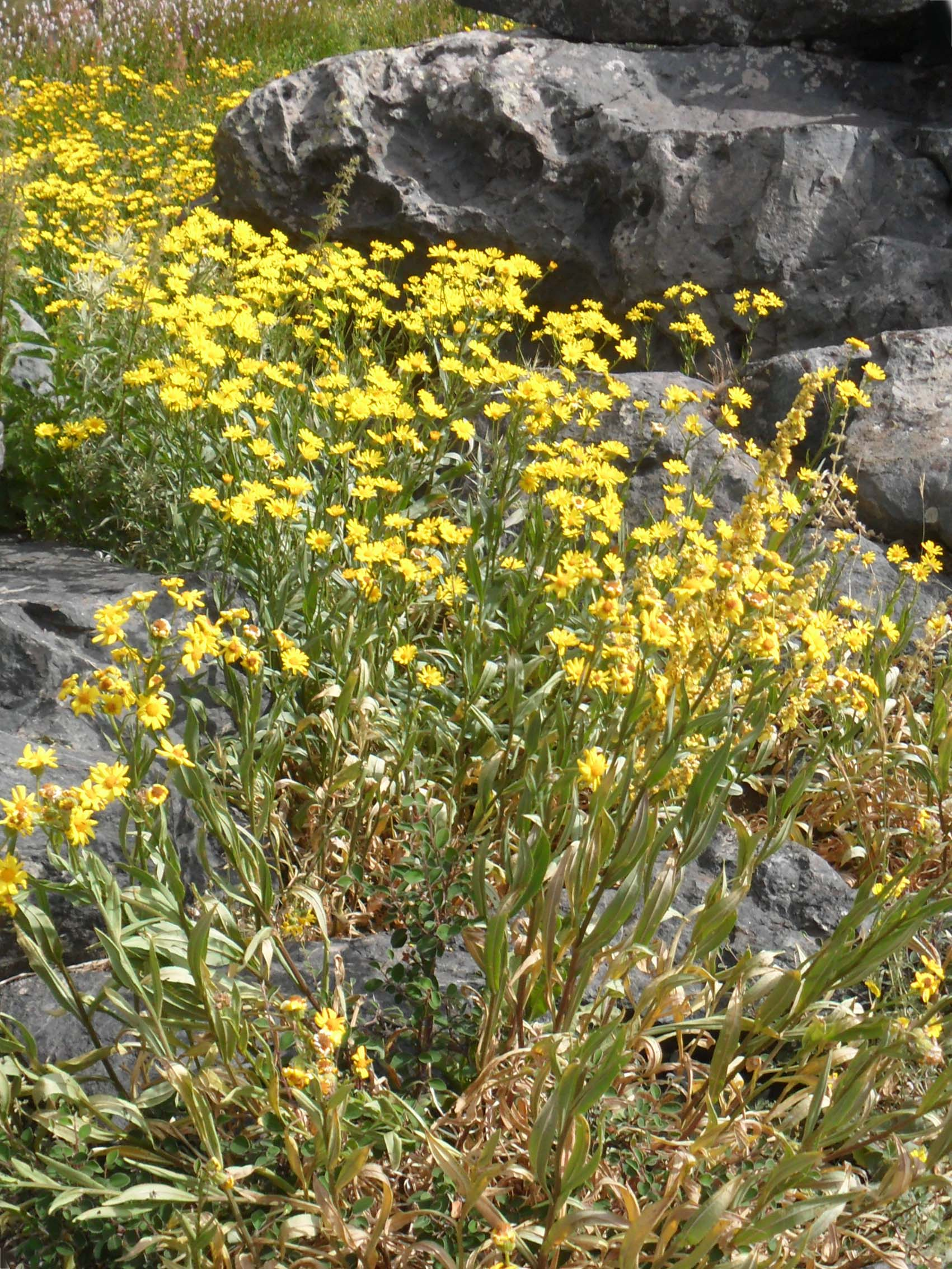 Cota tinctoria ( Yellow camomile) around Lake Karagöl in Toros Mountains, Turkey